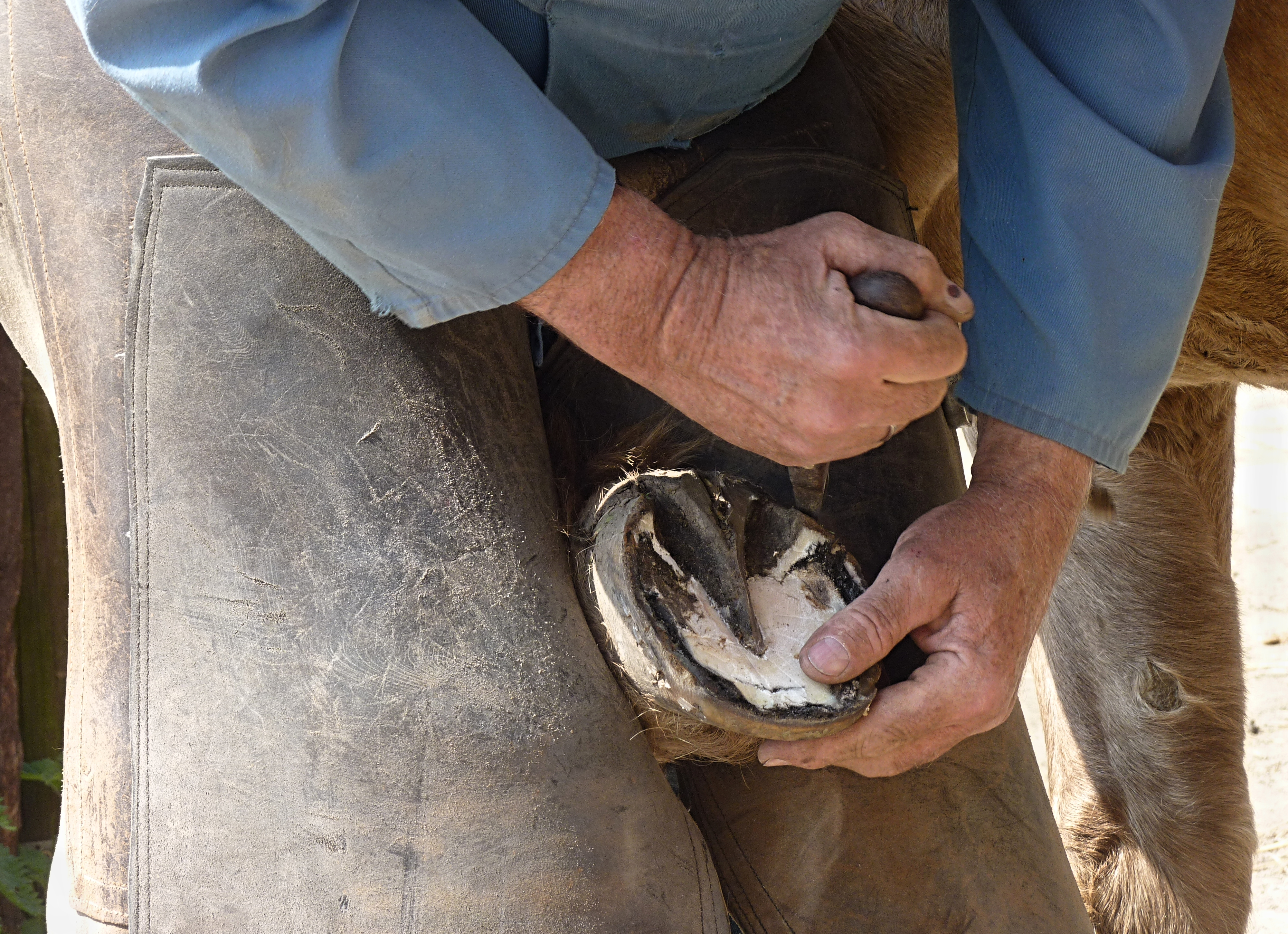 Farrier at work, picture taken in Mouscron, Belgium.